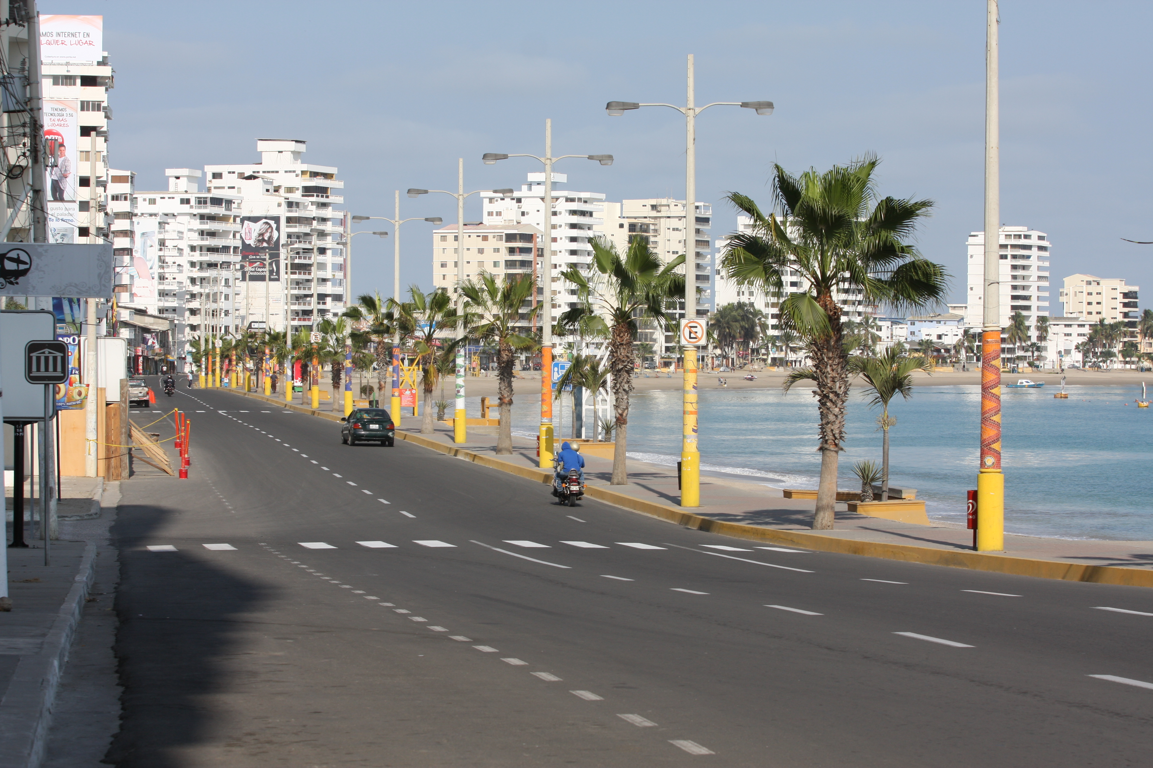 a view of the road in the beach of salinas ecuador